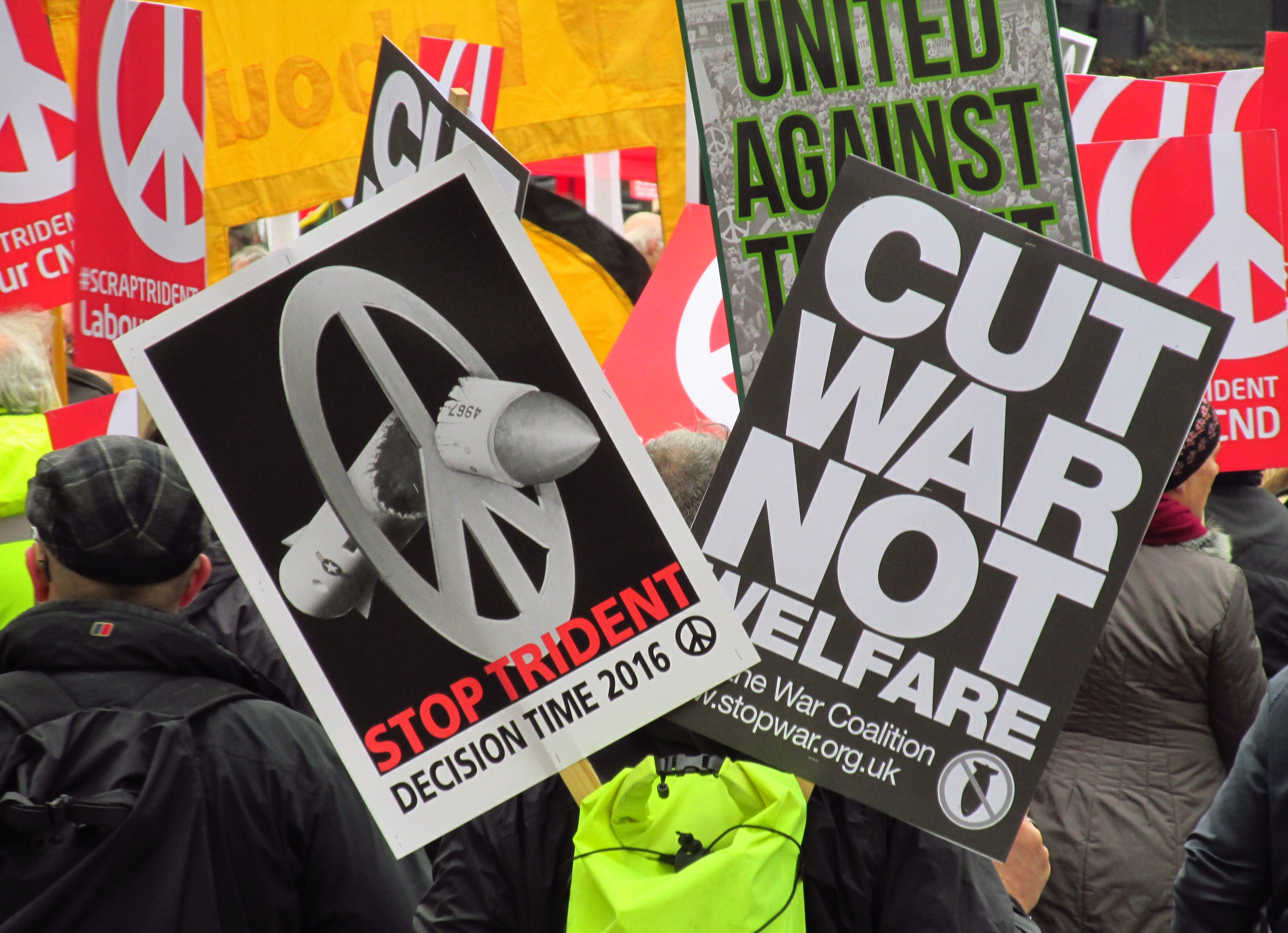 Stop Trident CND Demo February 27 2016 001 Marble Arch (3)